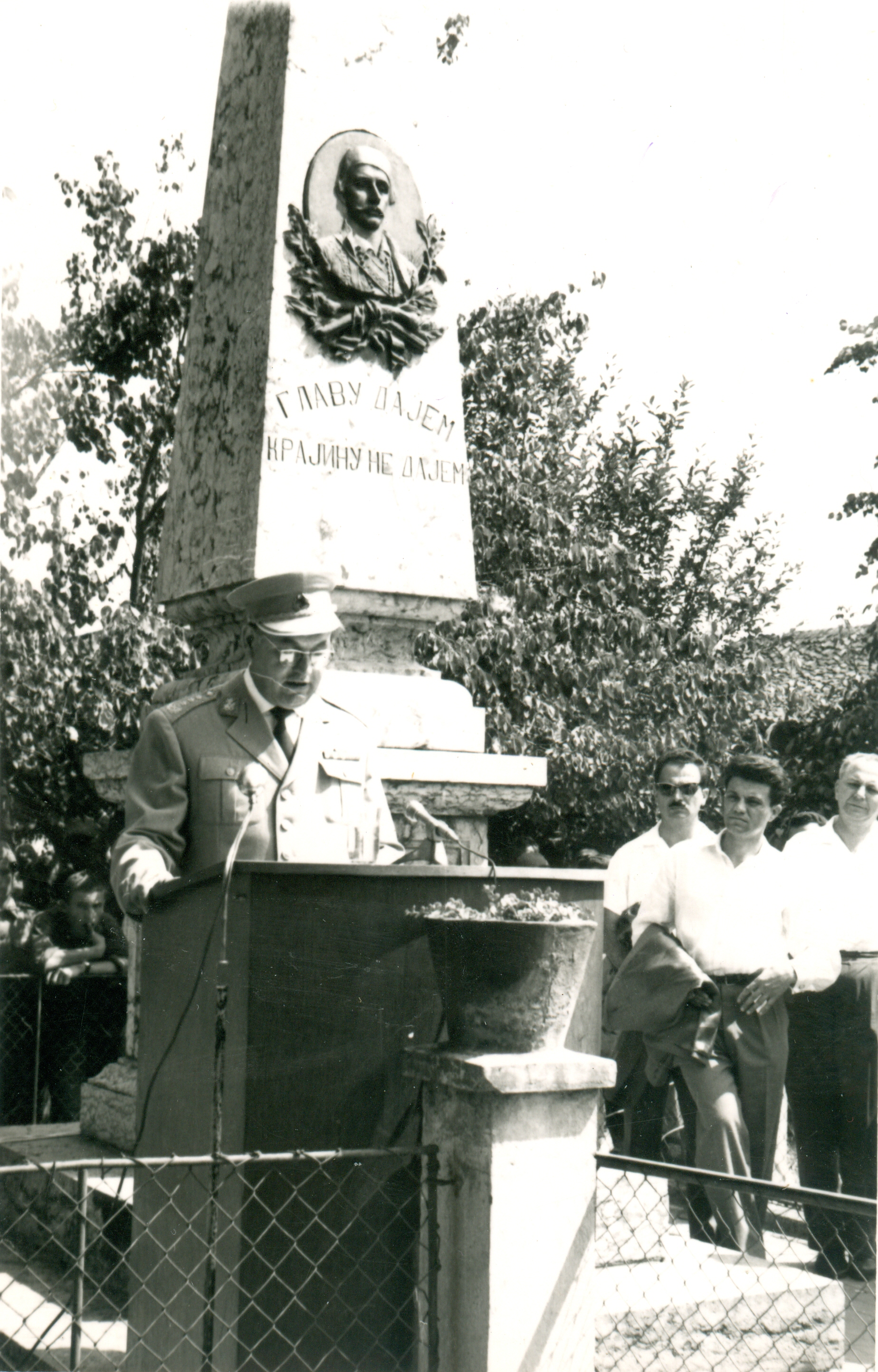 Brigadier general Pavle Ilic Veljko in Negotin 1963. Srpski (latinica): General major Pavle Ilić Veljko u Negotinu, 1963. godine